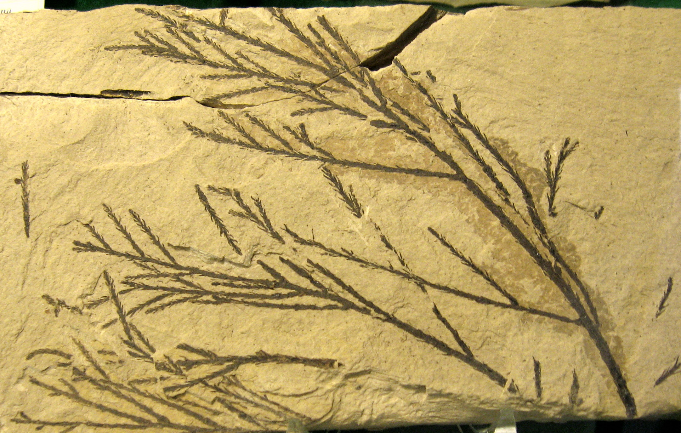 A branch of fossilized Glyptostrobus species needles. Eocene, 49.5 myo; Klondike Mountain Formation, Republic, Washington, USA. Stonerose Interpretive Center specimen #